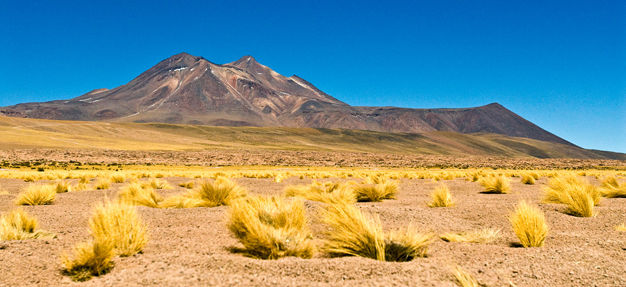 The Miñiques volcano, seen from the highplain. Chile - II Region